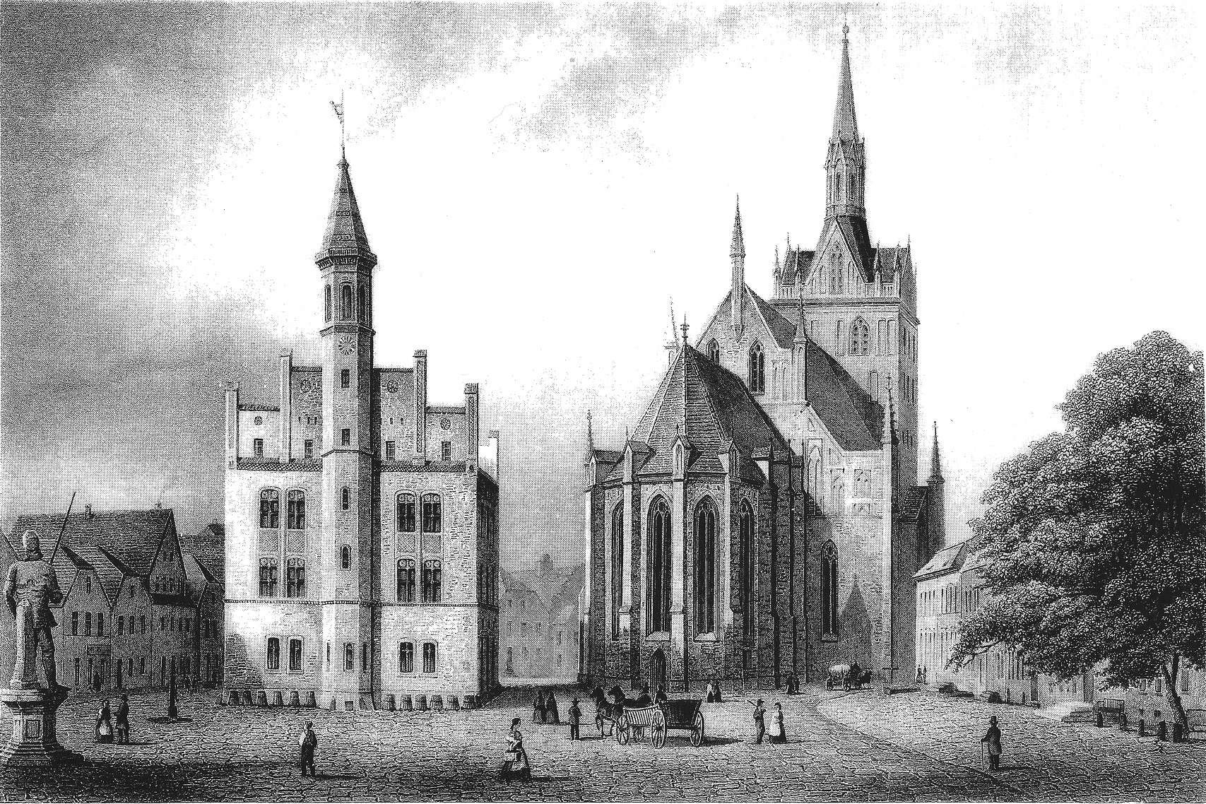 “Der Markt in Perleberg” taken from “Brandenburgisches Album. Eine Sammlung in Stahlstich ausgeführter Ansichten der Städte, Architecturen und Denkmäler der Mark Brandenburg”. Steel engraving by Poppel and Kurz based on a drawing by Gottheil. The image pictures Perleberg’s marketplace. From left to right: Roland statue, town hall, St. Jacobi church.